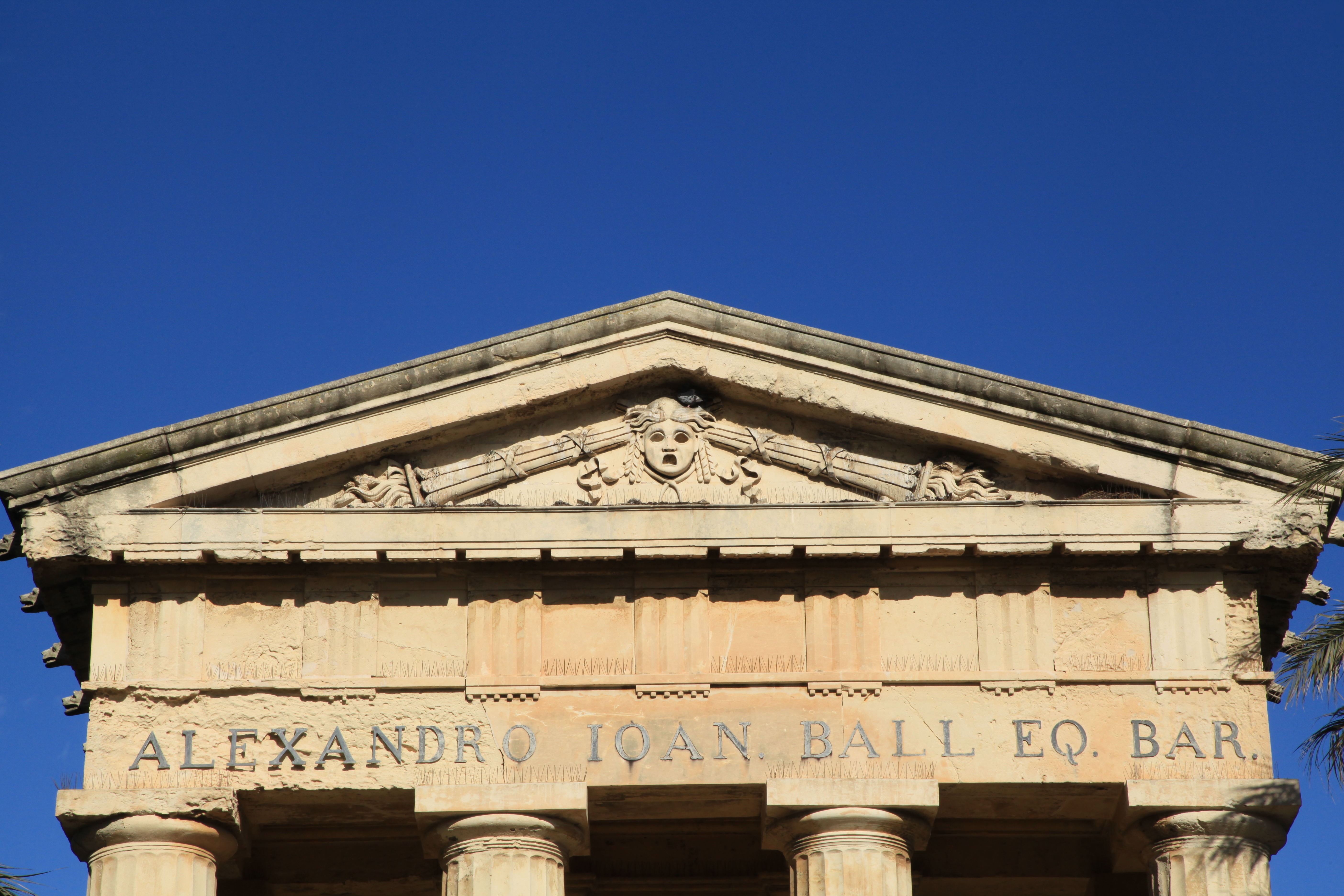 Monument to Alexander Ball, Lower Barrakka Gardens, Triq il-Lvant in Valletta, Malta